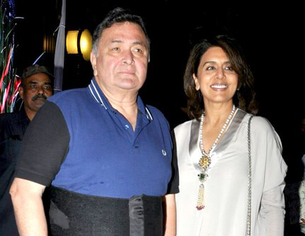 Rishi Kapoor & Neetu Singh at Rakesh Roshan's birthday bash.